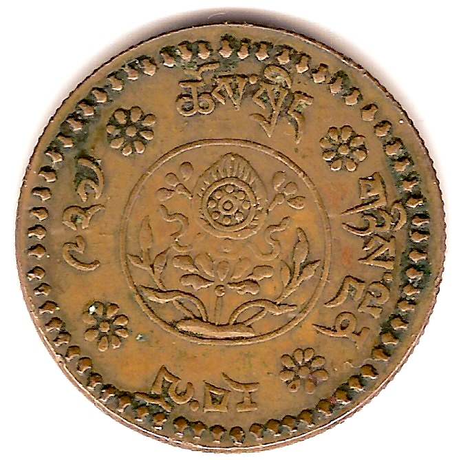 Tibetan 5 srang copper coin, dated rab lo 927 (=AD 1953) reverse